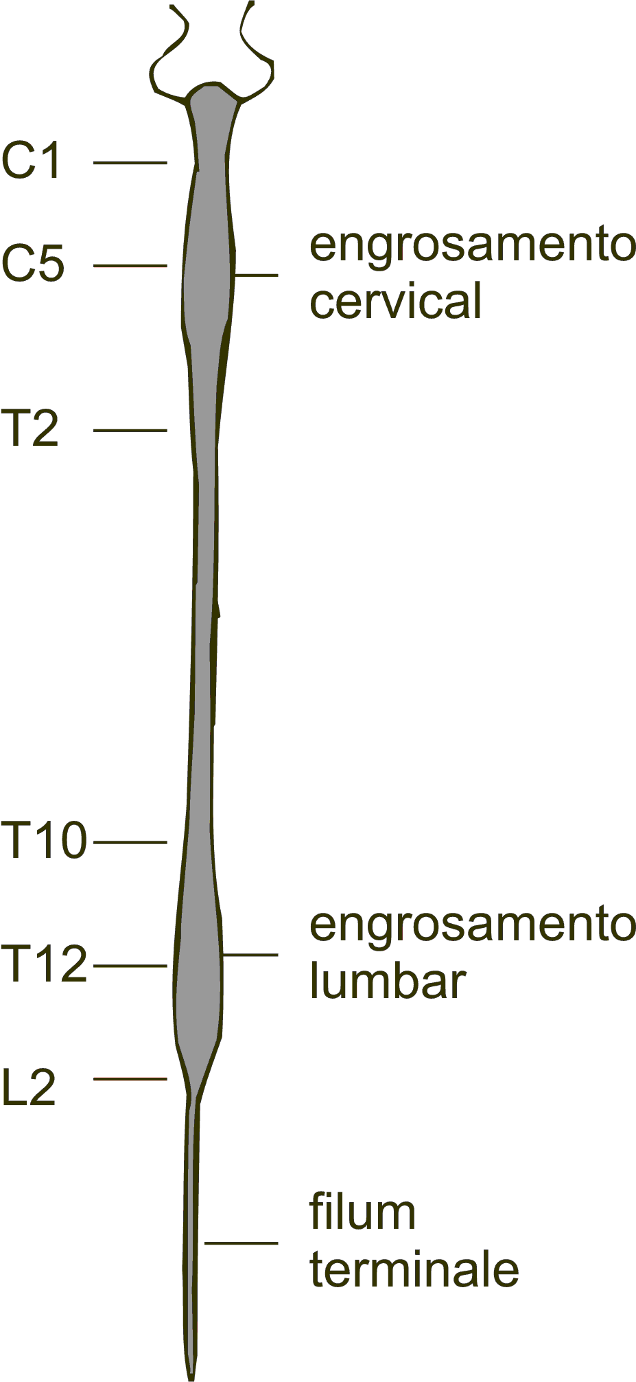 simple diagram of the spinal chord (dorsal view) showing its thickness, and the filum terminale from L2.